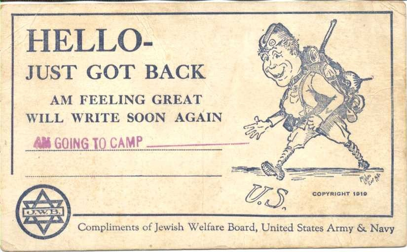 Postcard provided by the National Jewish Welfare Board to members of the United States armed forces returning home from World War I